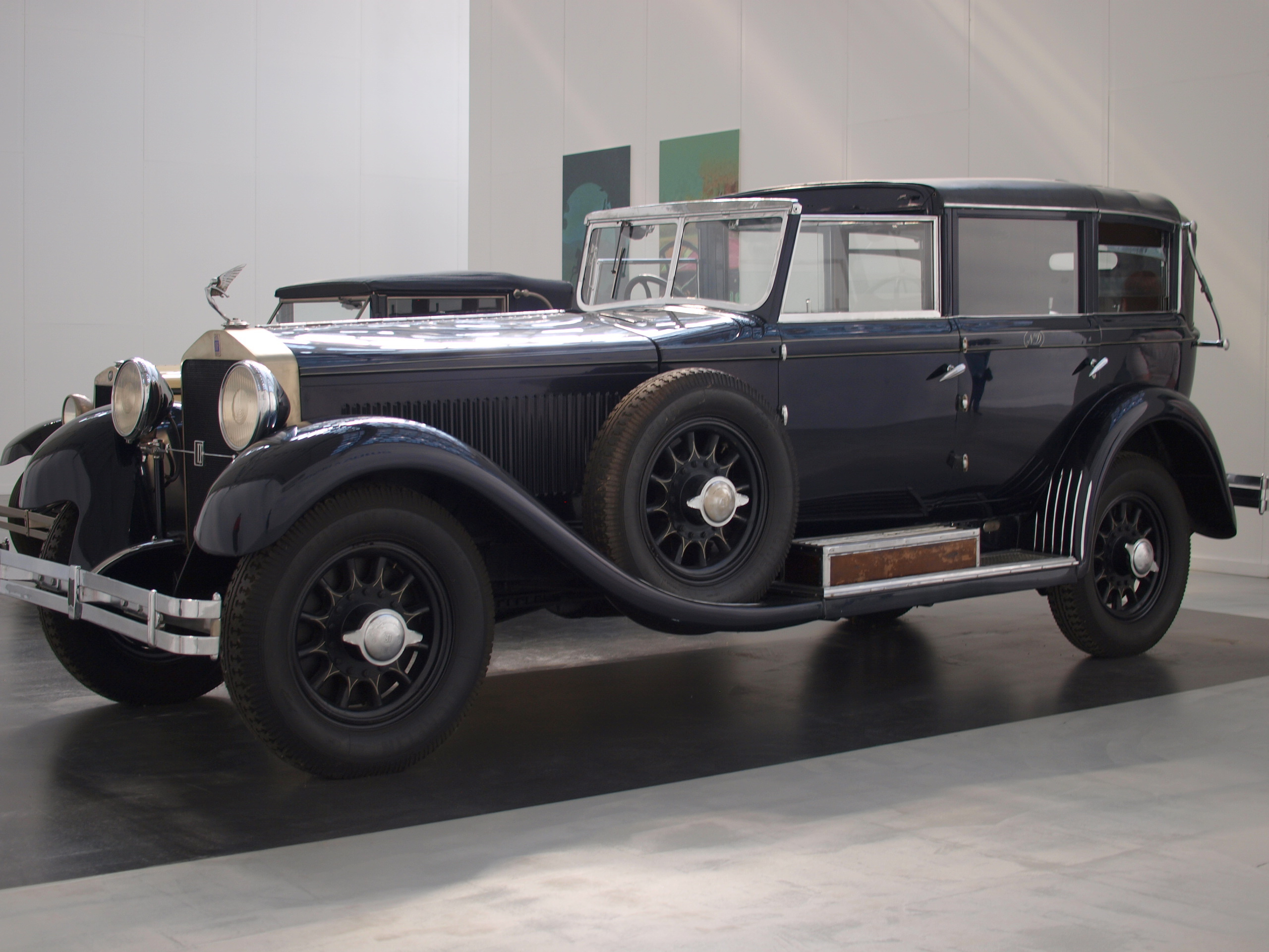 the same one as in the 1950 film "Sunset Boulevard"